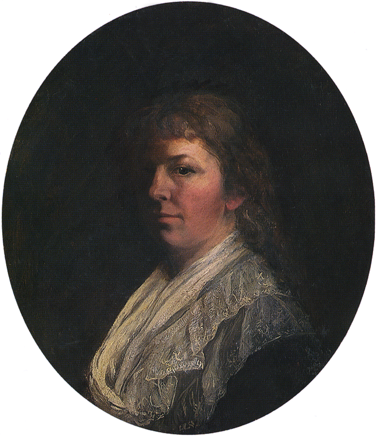 Selfportrait in oil by the painter Aline von Kapff (1842–1936) from Bremen, Germany